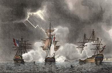 Destruction of the Preneuse